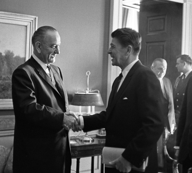 President Lyndon B. Johnson shakes hands with California Governor and later President Ronald Reagan in the White House.